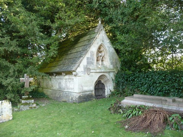 Wherwell - Iremonger Crypt This crypt was built for the Iremonger family using stone from the original church that was destroyed by fire in 1856.